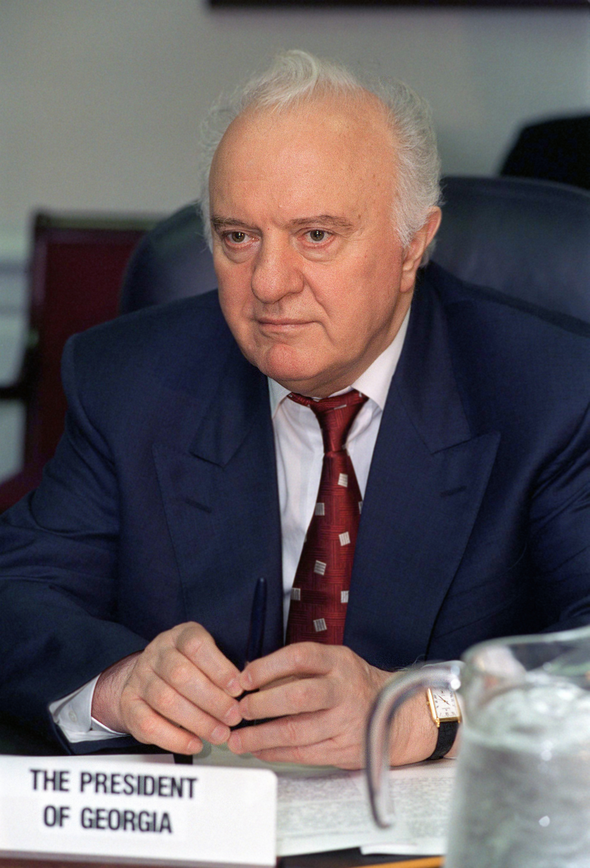 President Eduard Shevardnadze of Georgia photographed during his meeting with Secretary of Defense William Cohen at The Pentagon